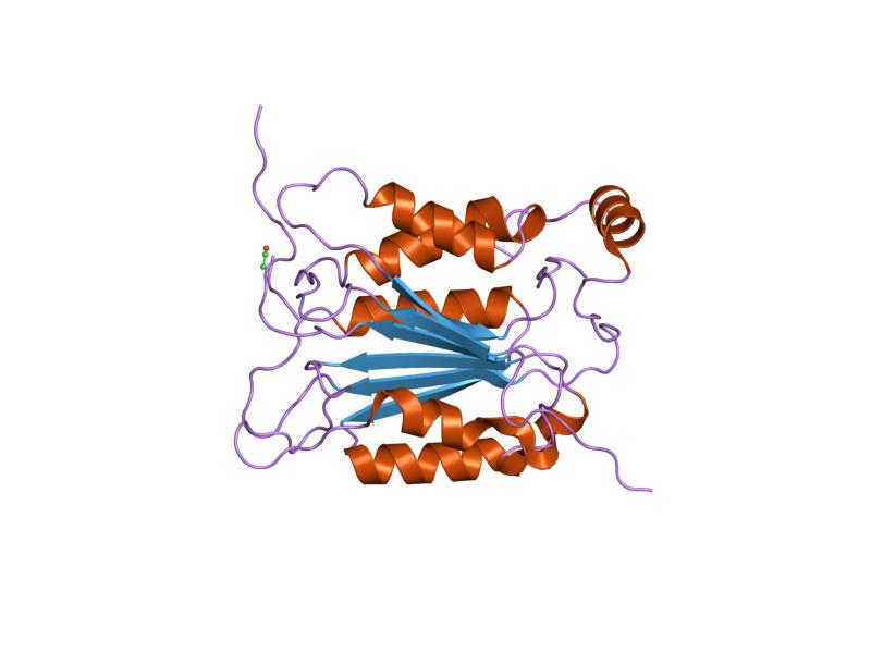 Cartoon representation of the molecular structure of protein registered with 1ice code.